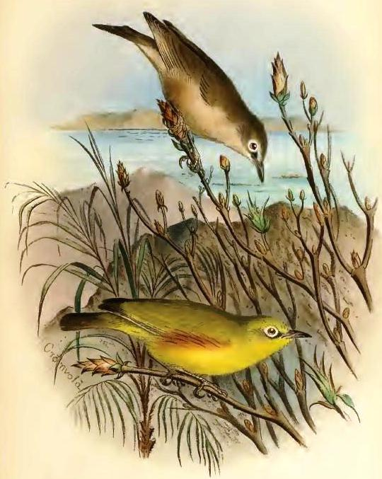 Chestnut-sided White-eye